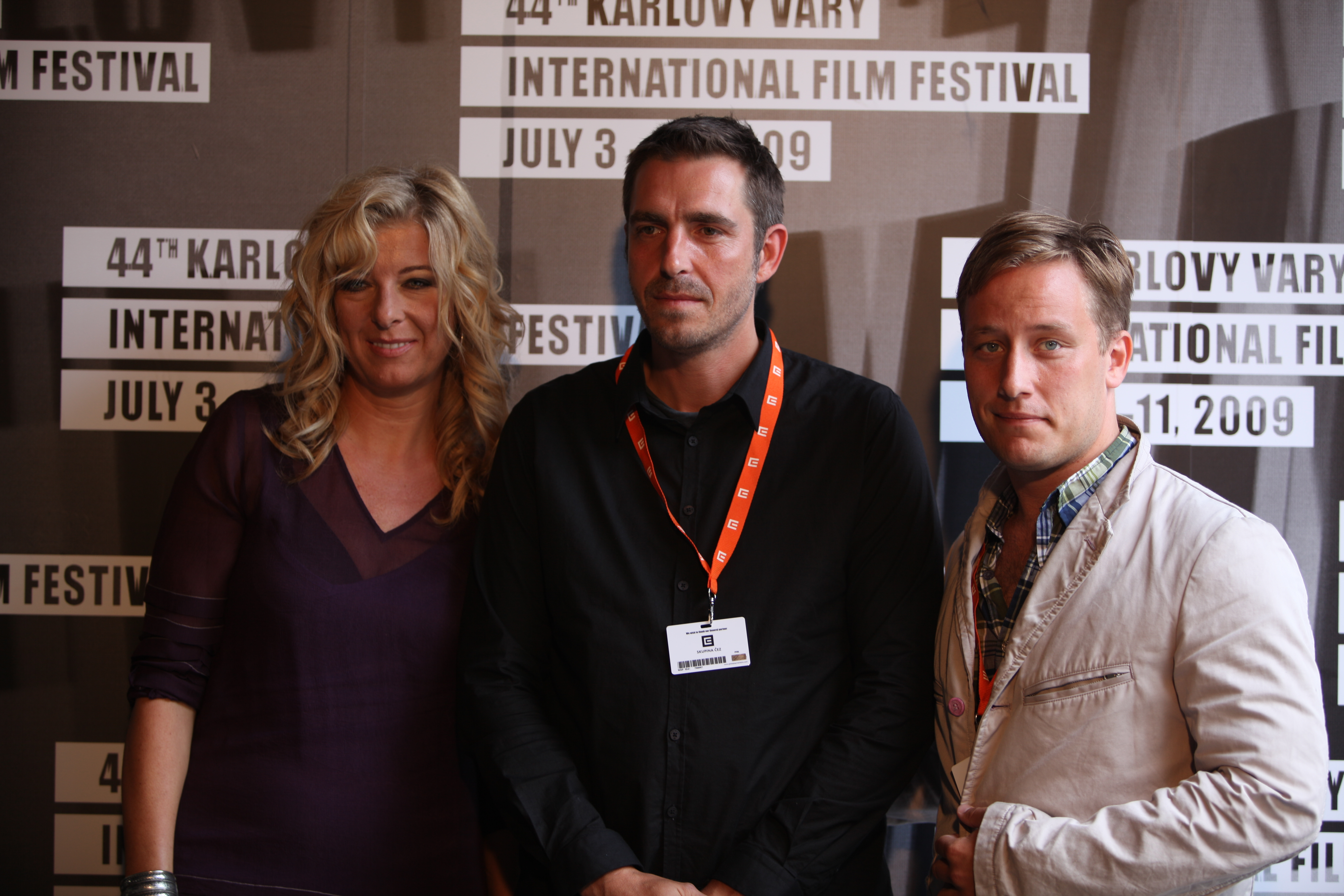 Delegation for Danish film Applause in Karlovy Vary: Paprika Steen, Martin Zandvliet, Anders August